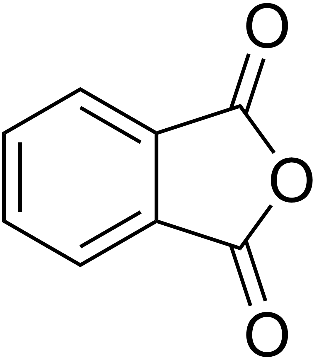 chemical structure of phthalic anhydride